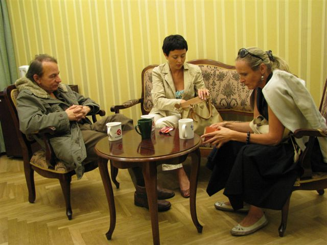 Michel Houellebecq (b. 1958), French writer and Ewa Wieleżyńska, Polish translator and Beata Stasińska (b. 1960), Polish editor